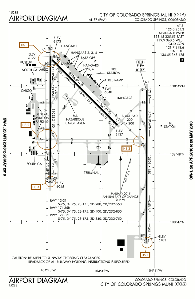 FAA diagram of Colorado Springs Airport (COS) in Colorado Springs, Colorado. Note: this URL changes monthly; the airport article should contain a link to the current FAA diagram. Produced by the National Aeronautical Charting Office (NACO), a department of the Federal Aviation Administration (FAA).